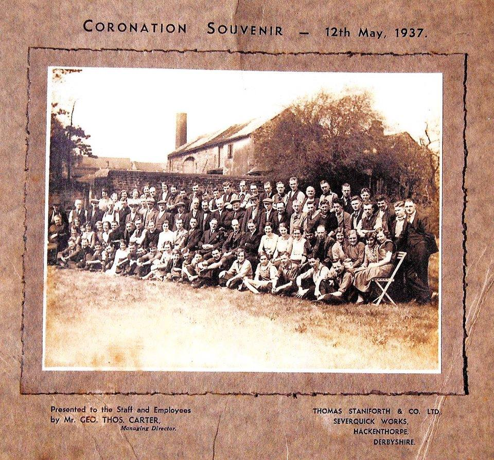 1937 Souveneir Photo showing Thomas Staniforth & Co. Workers in Hackenthorpe, Sheffield